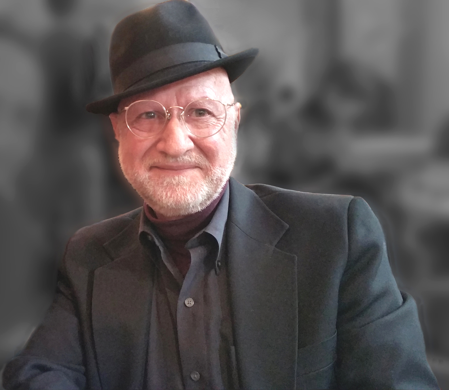 Dr Bob in Santa Fe